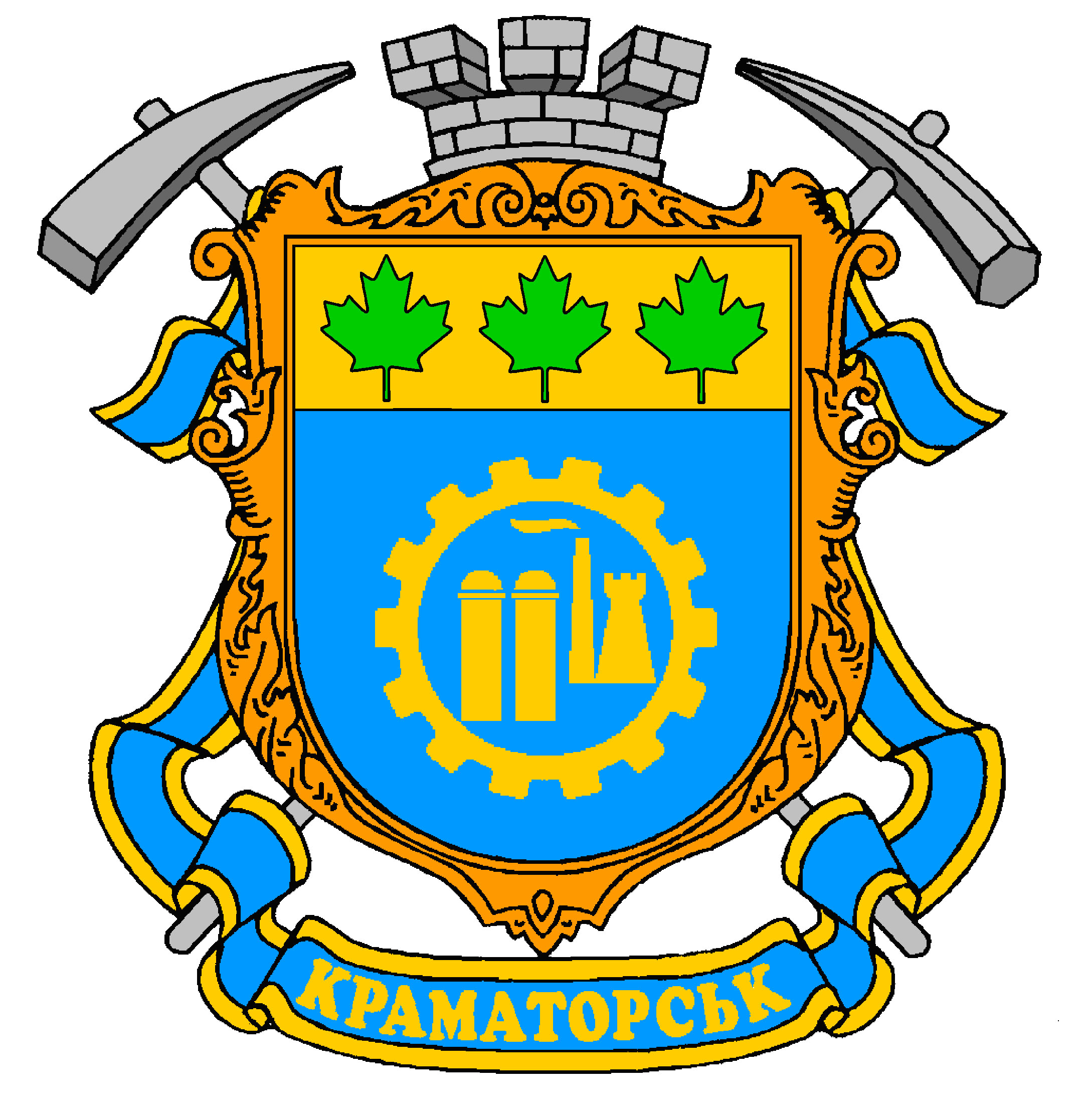 Coats of arms of Kramatorsk